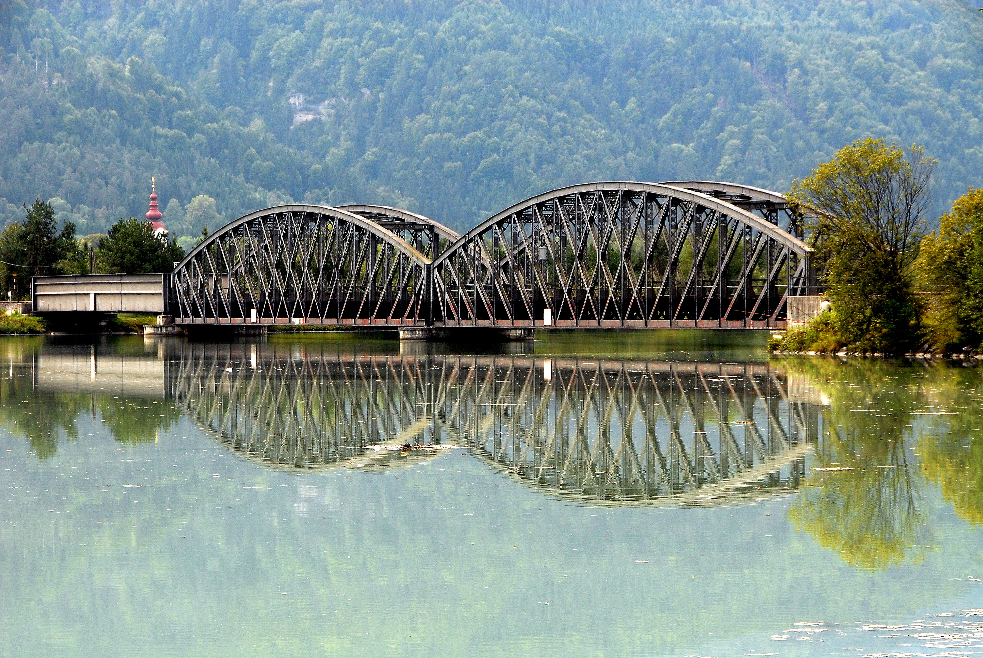 Railway bridge across the Ferlach reservoir of the river Drava in Unterschlossberg (submontane the castle Hollenburg), municipality Koettmannsdorf, district Klagenfurt Land, Carinthia, Austria, EU